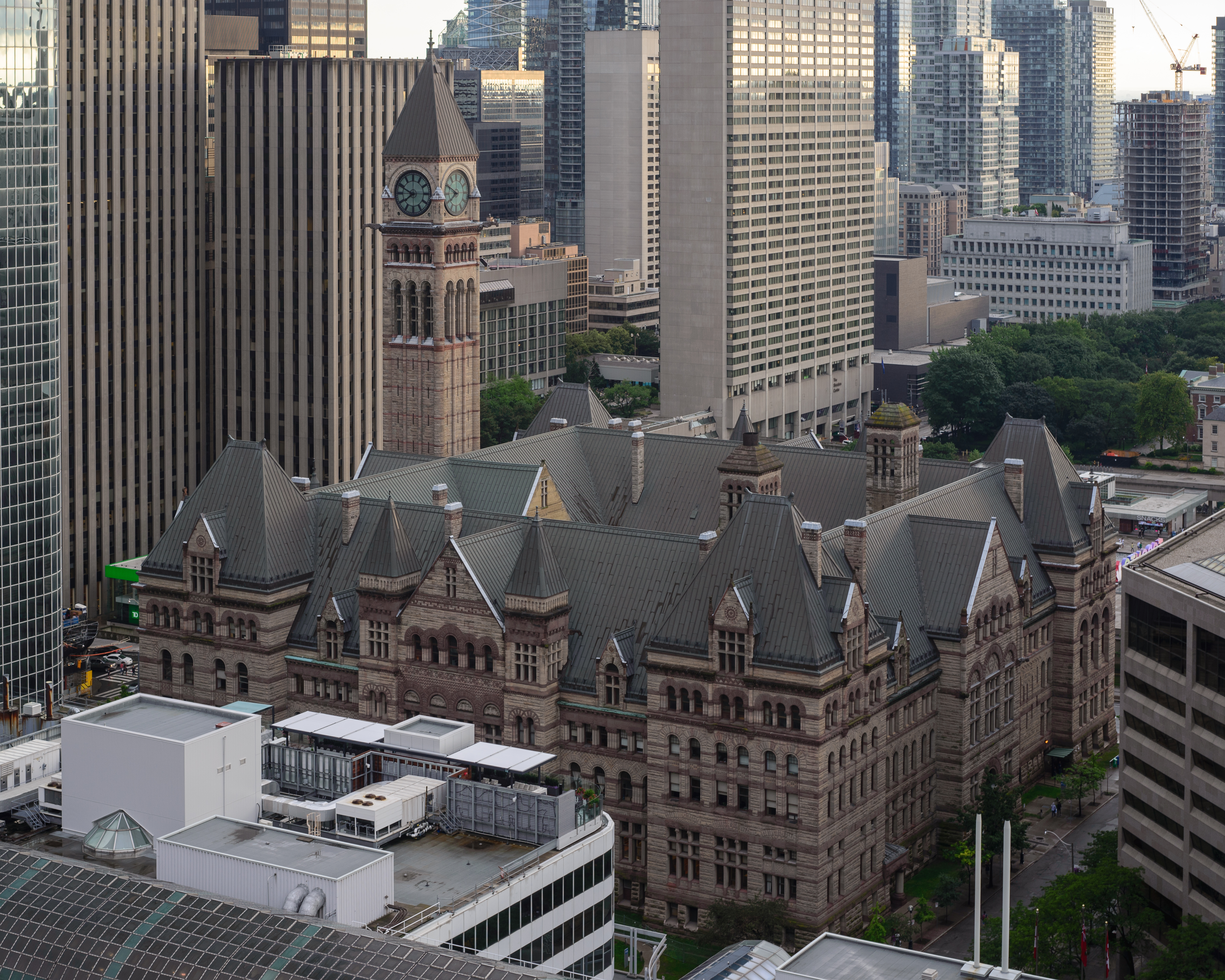 Toronto old city hall. View from Pantages Tower.